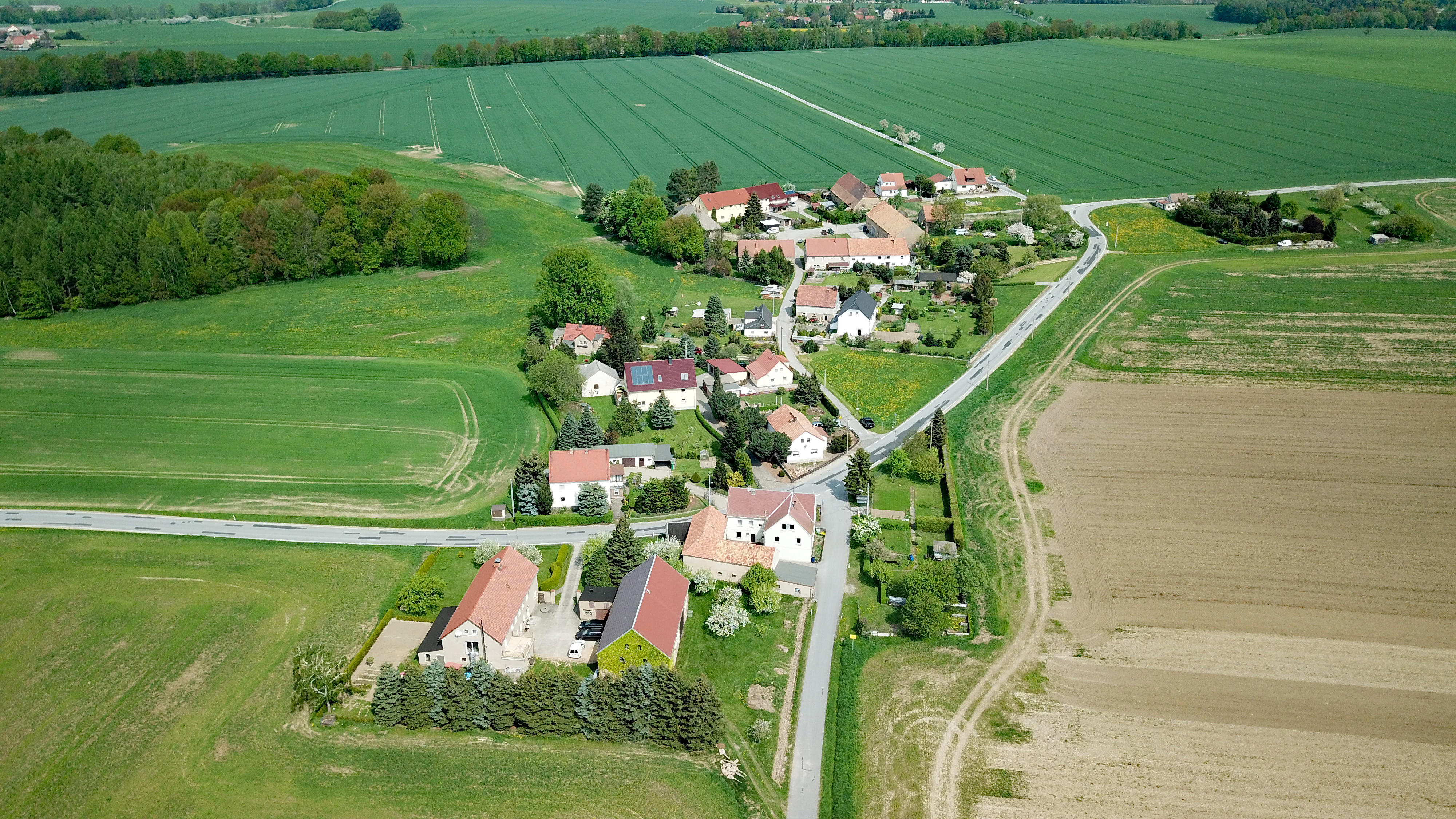 Drauschkowitz (Doberschau-Gaußig, Saxony, Germany) Hornjoserbsce: Powětrowy wobraz Družkec